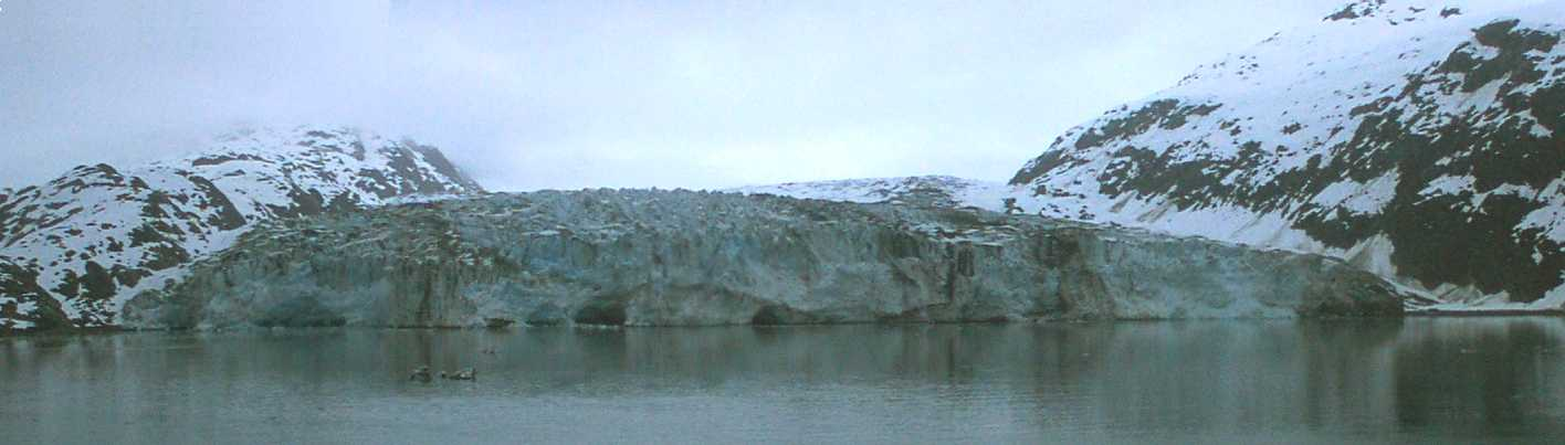 Composite picture of a large glacier in Glacier Bay National Park, Alaska.